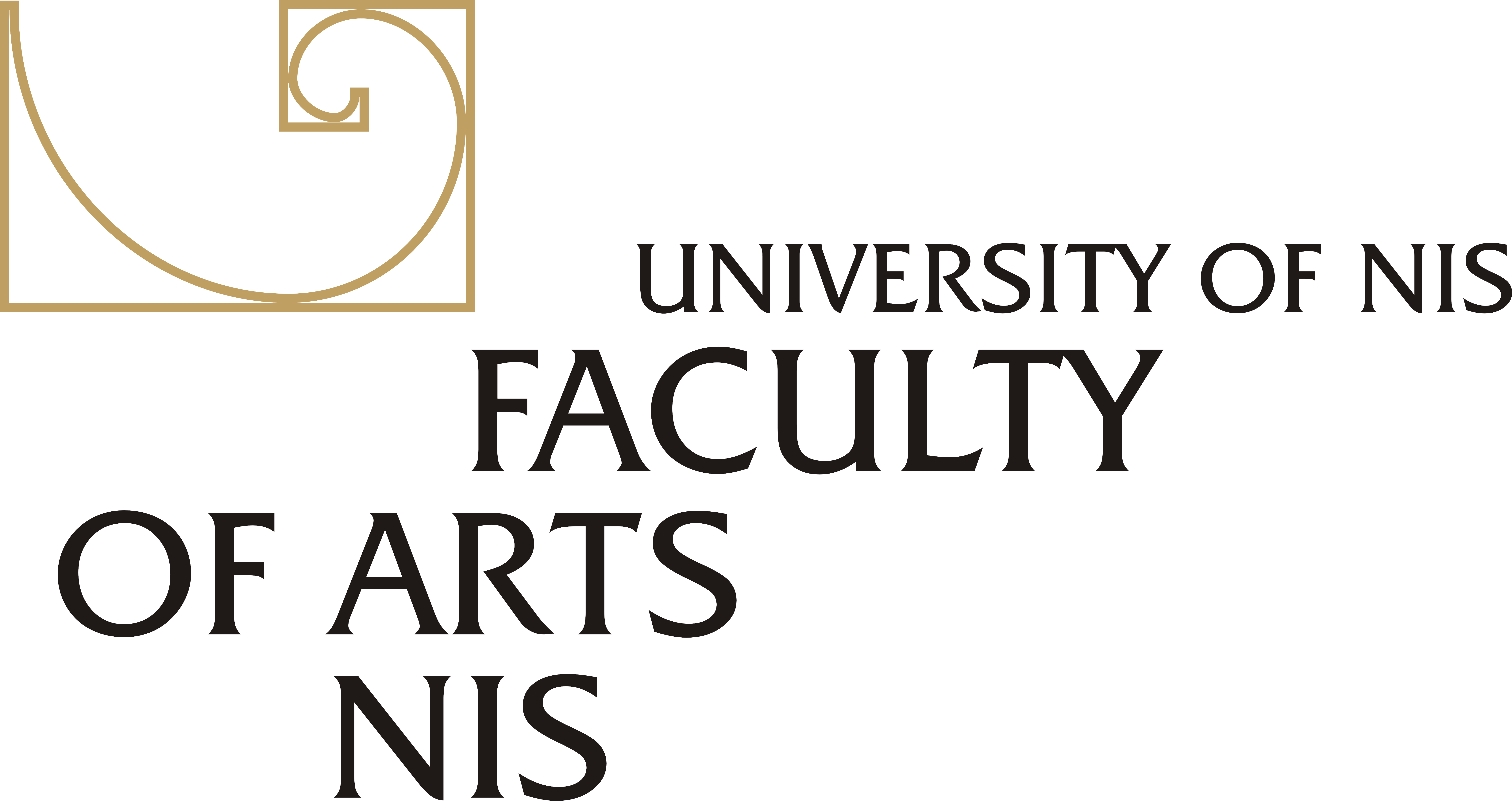 Logo Fakulteta umetnosti u Nišu